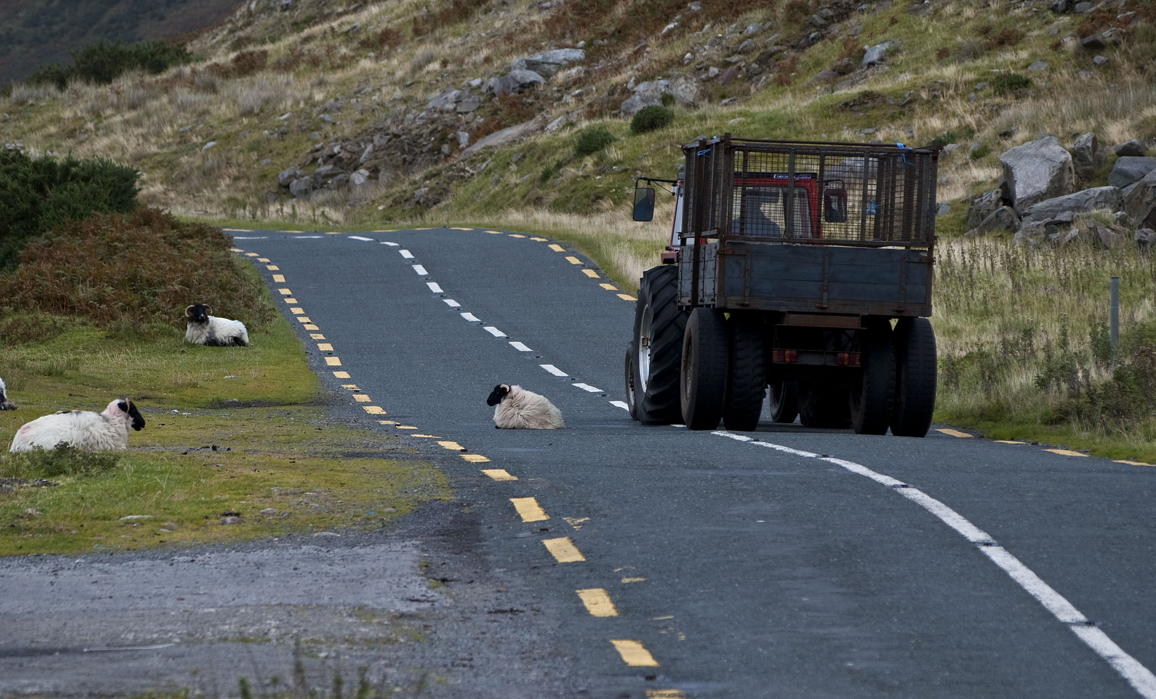 Sheep and tractor with trailer on a road, County Mayo, Ireland